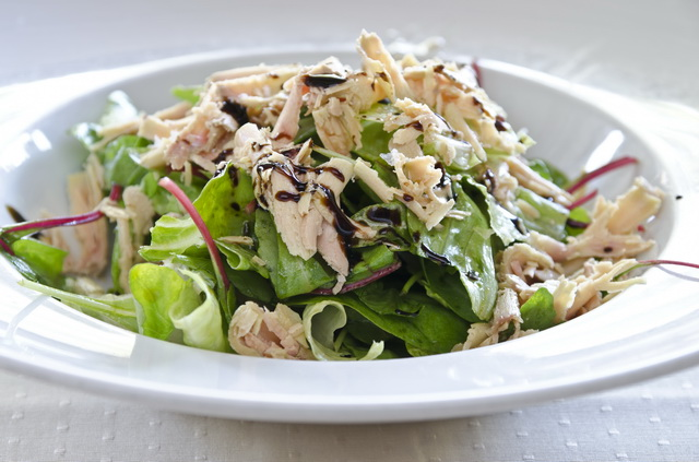 foie gras salad in a restaurant in Hungary